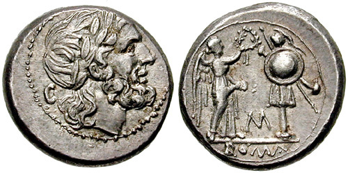 AR Victoriatus. Sicilian mint. Obv.: Laureate head of Jupiter; Rev.: Victory crowning Tropaeum; Crawford 71/1a